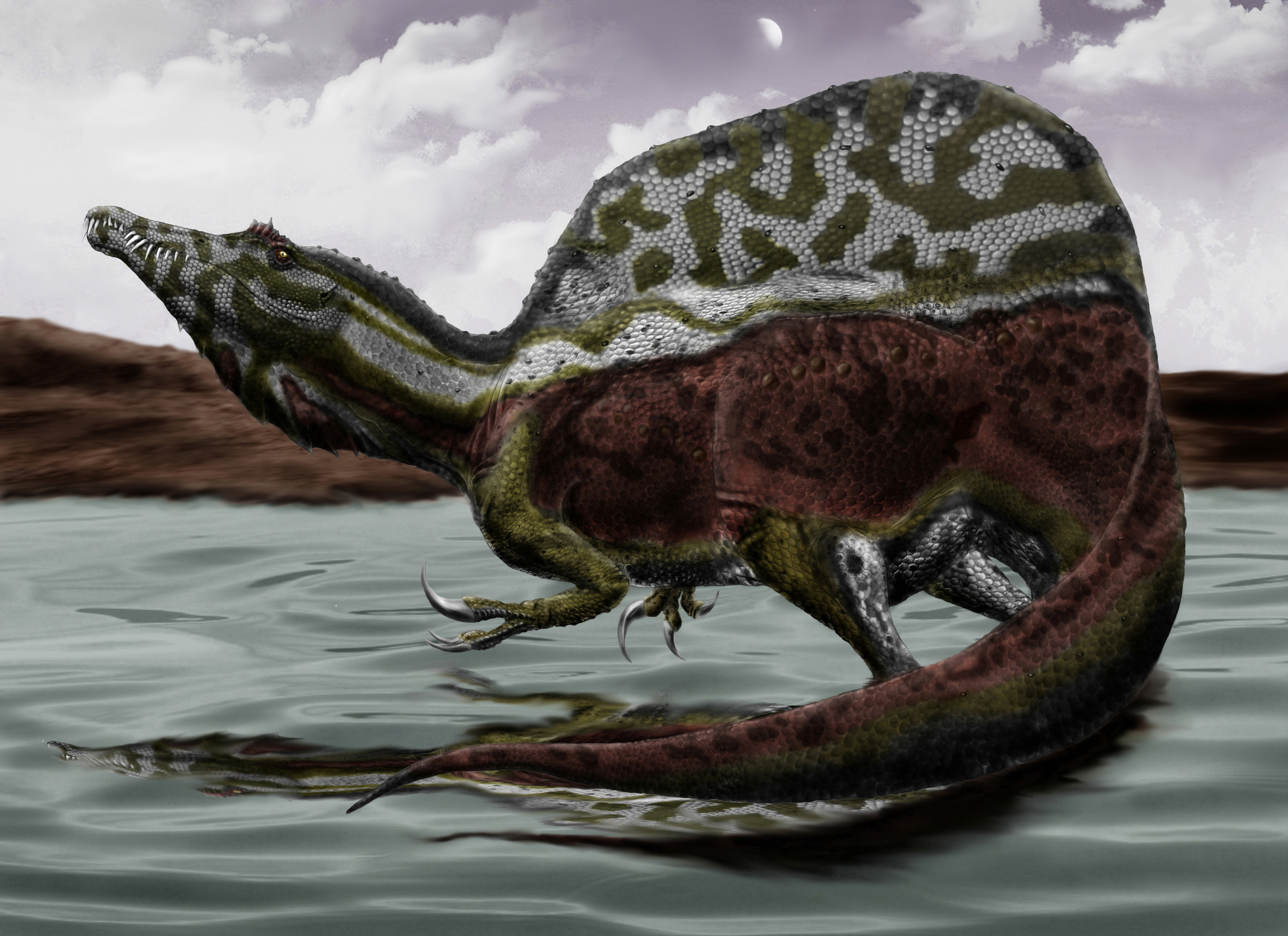 Life reconstruction of Spinosaurus aegyptiacus based on the recent description of a new specimen.